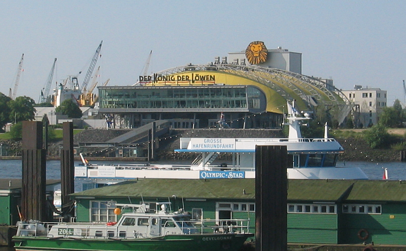 Hamburg, Germany: Musicaltheater Hamburg (Port of Hamburg. Vorne das Zollboot Oevelgönne.)